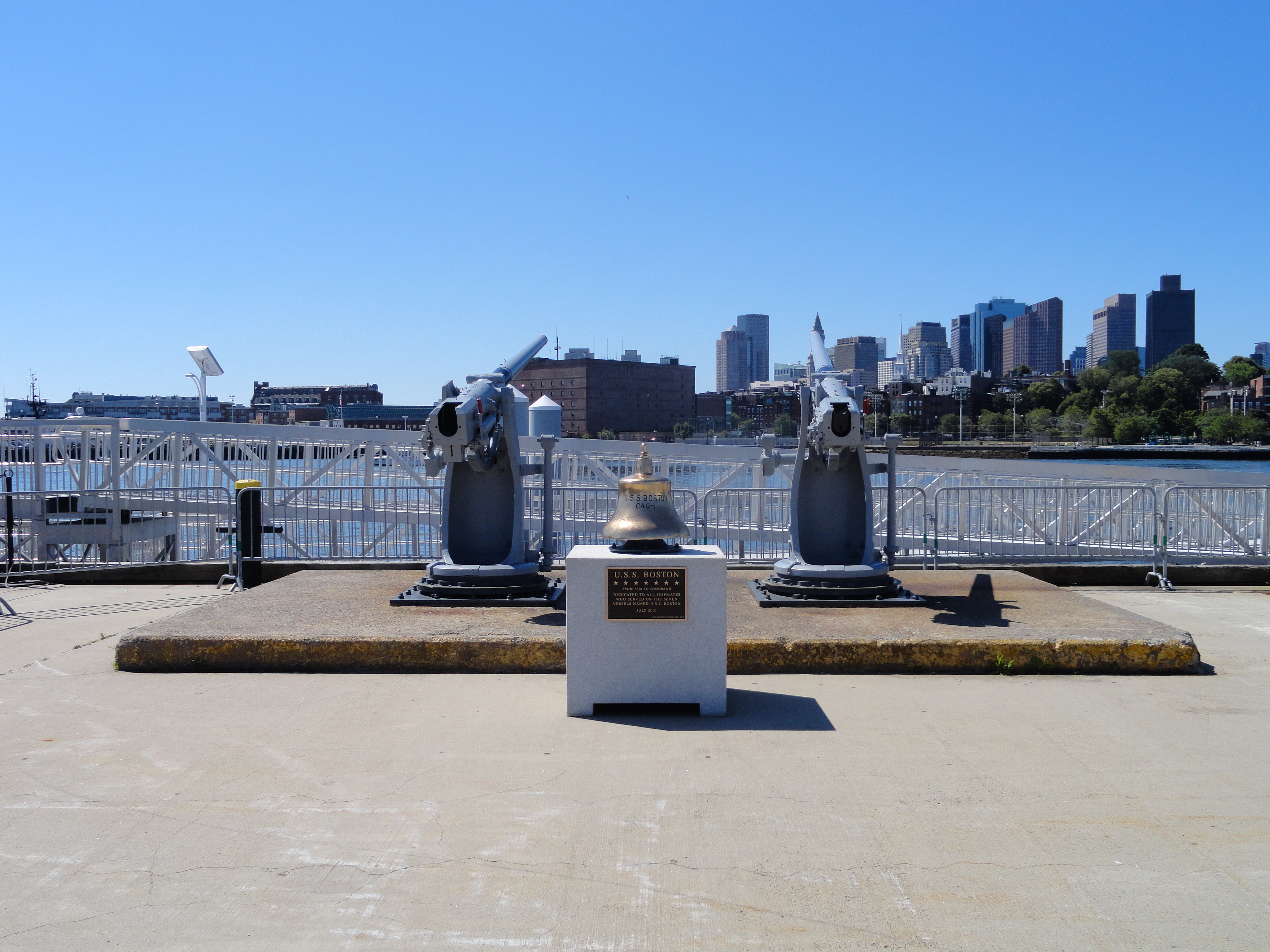 USS Boston Bell Boston Navy Yard. According to the plaque, the Bell was placed there in 2001.